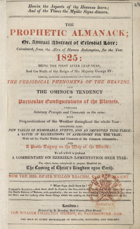 A manuscript volume from the library of John Harries (d. 1839), of Pantcoy, Cwrtycadno, Carmarthenshire, astrologer and medical practitioner, containing many illustrated spells and astrological signs. 4631466